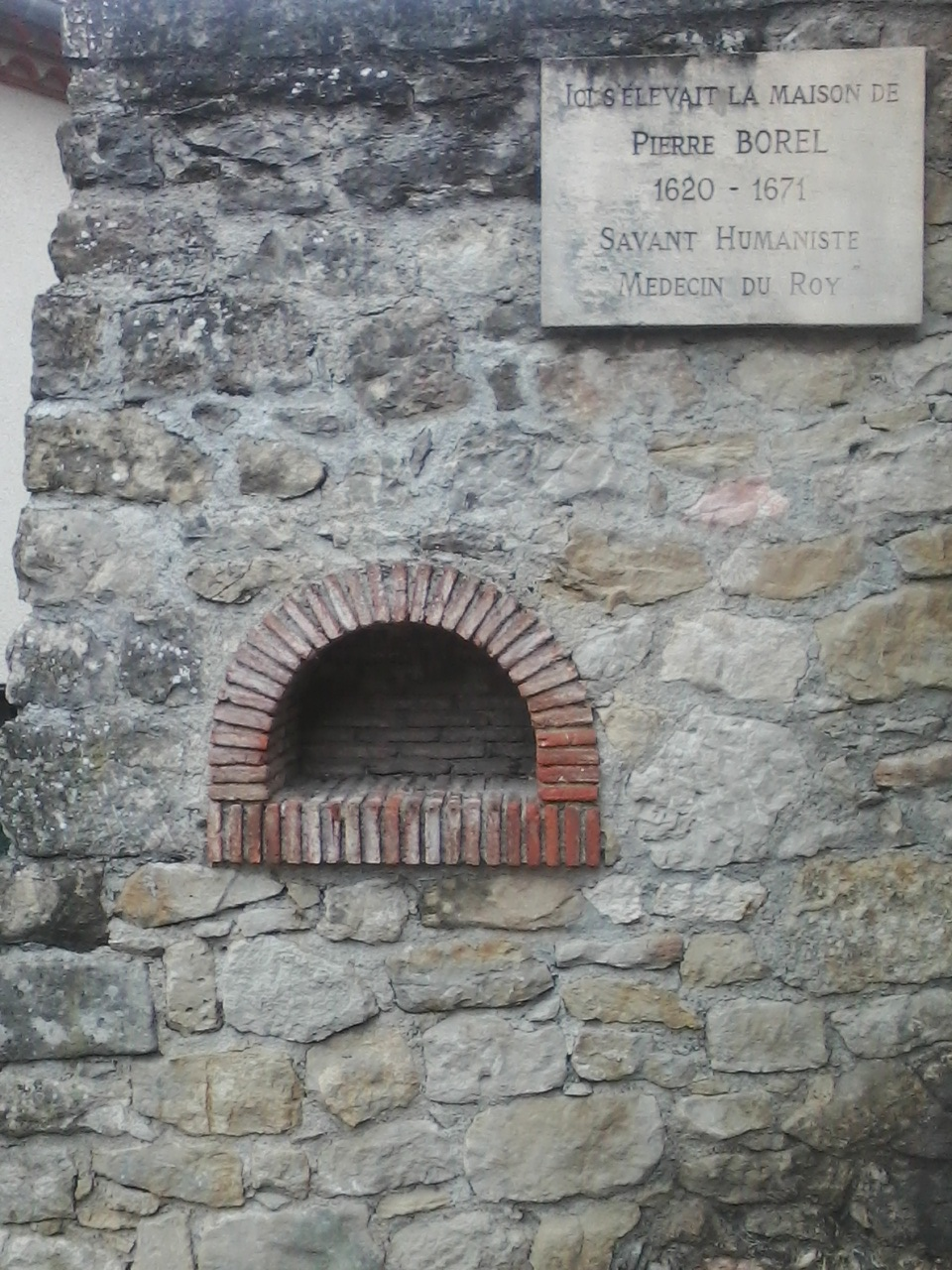 Vestige de la maison de Pierre Borel à Castres.